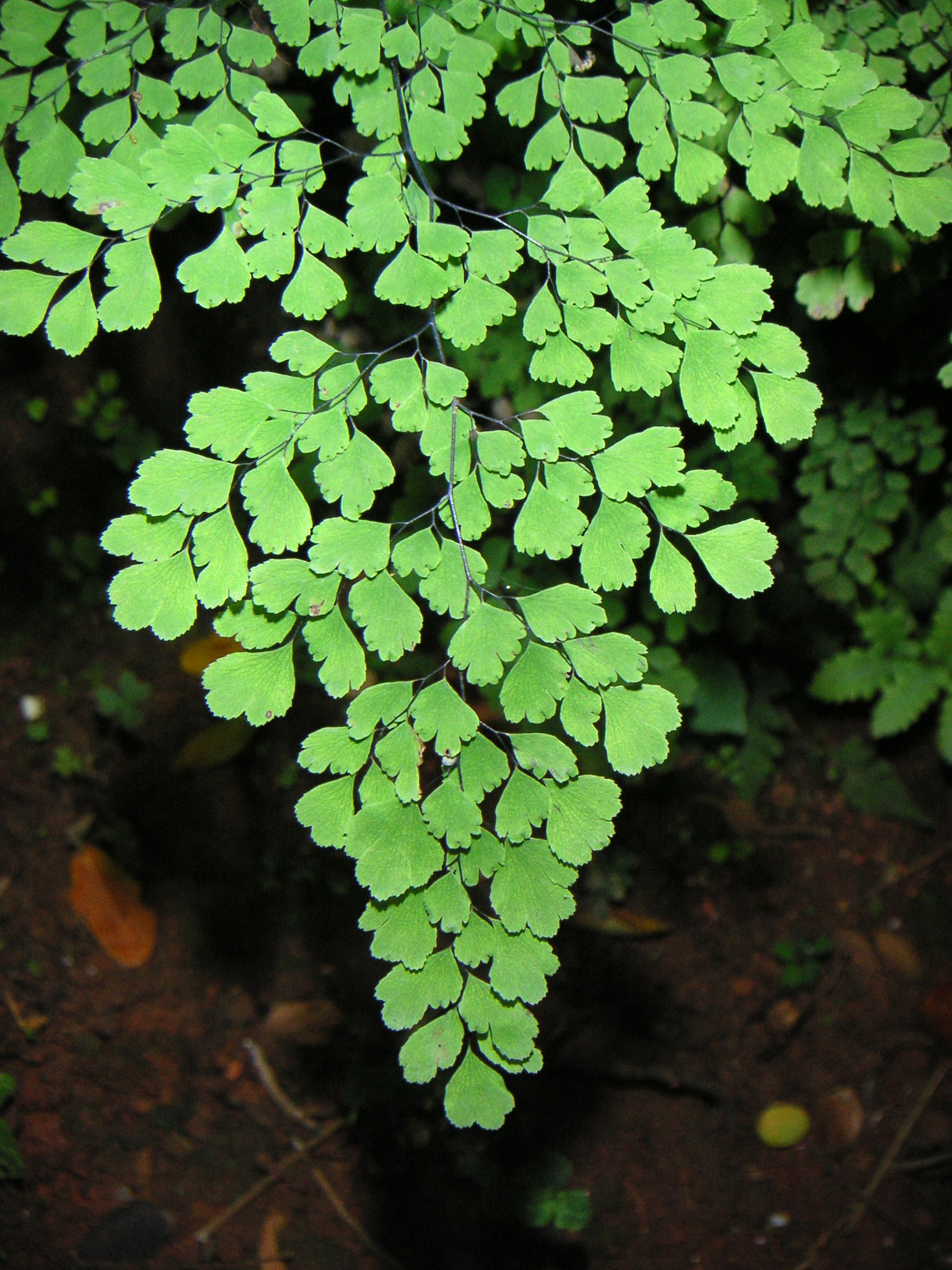 Green (from chlorophyll) fronds of a maidenhair fern: a photoautotroph